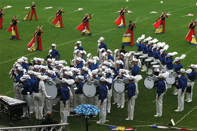 Beatrix' Drum & Bugle Corps from Hilversum, 10th of the European finals in 2007.